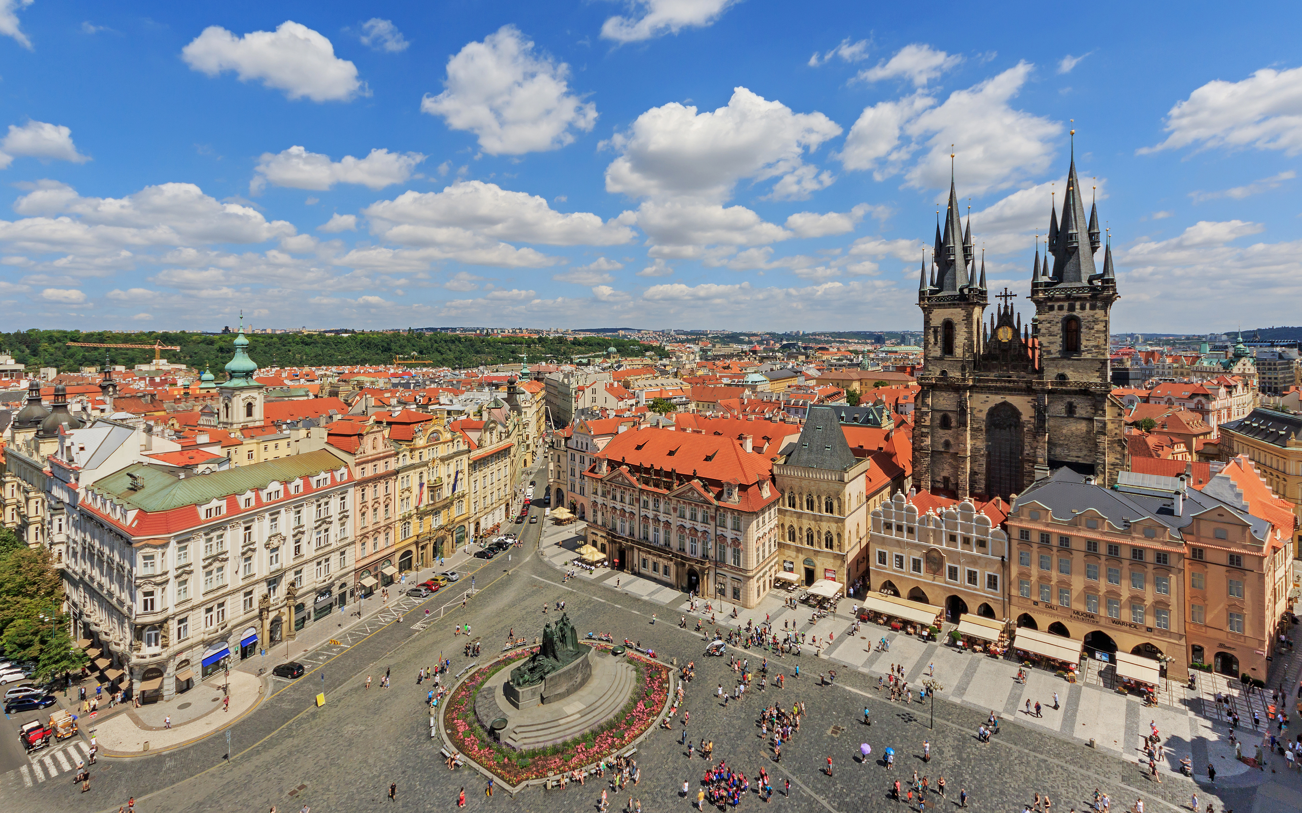 View from the tower of Old Town Hall in Prague (Czech Republic).